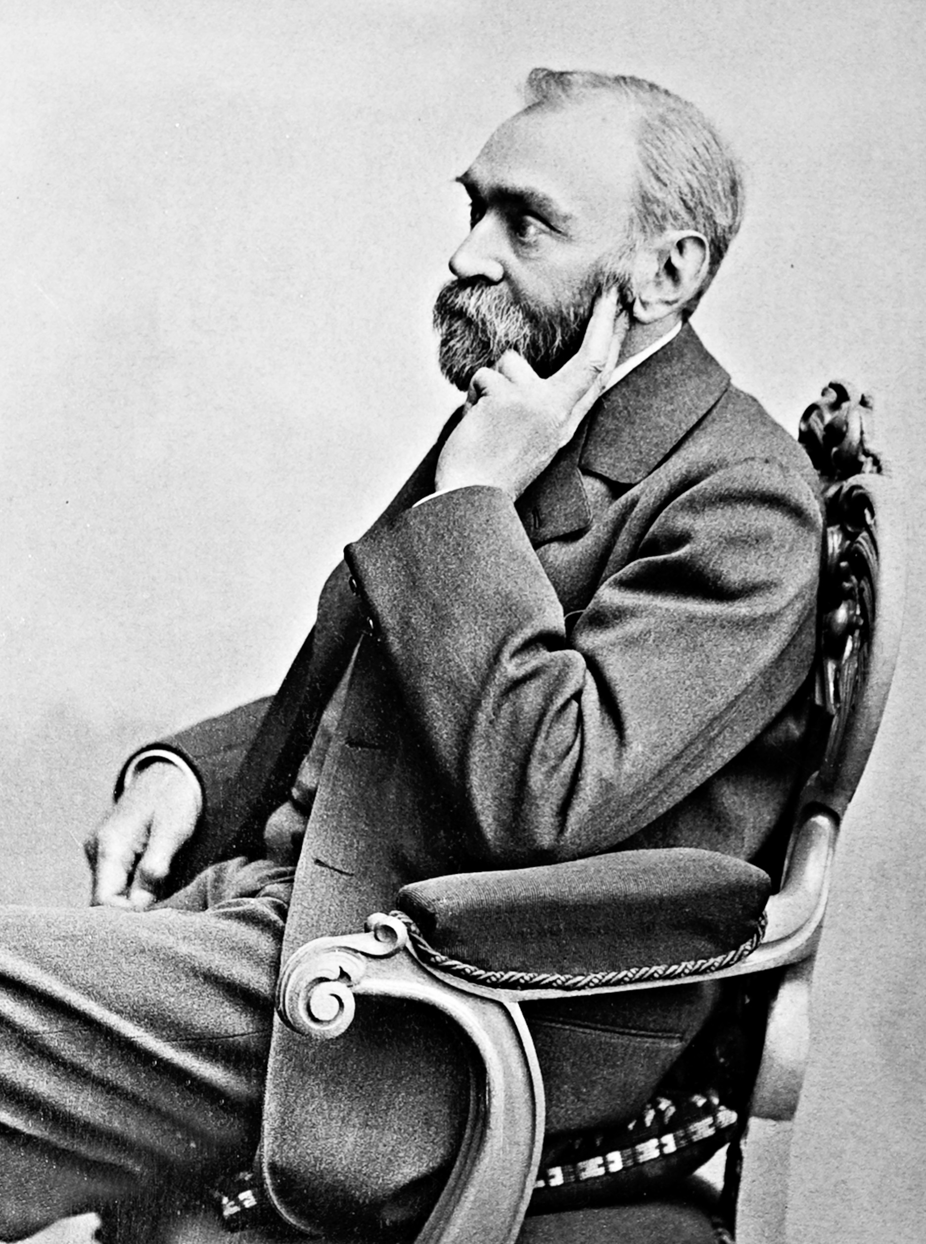 Portrait of Alfred Nobel (1833–1896) by Gösta Florman (1831–1900)